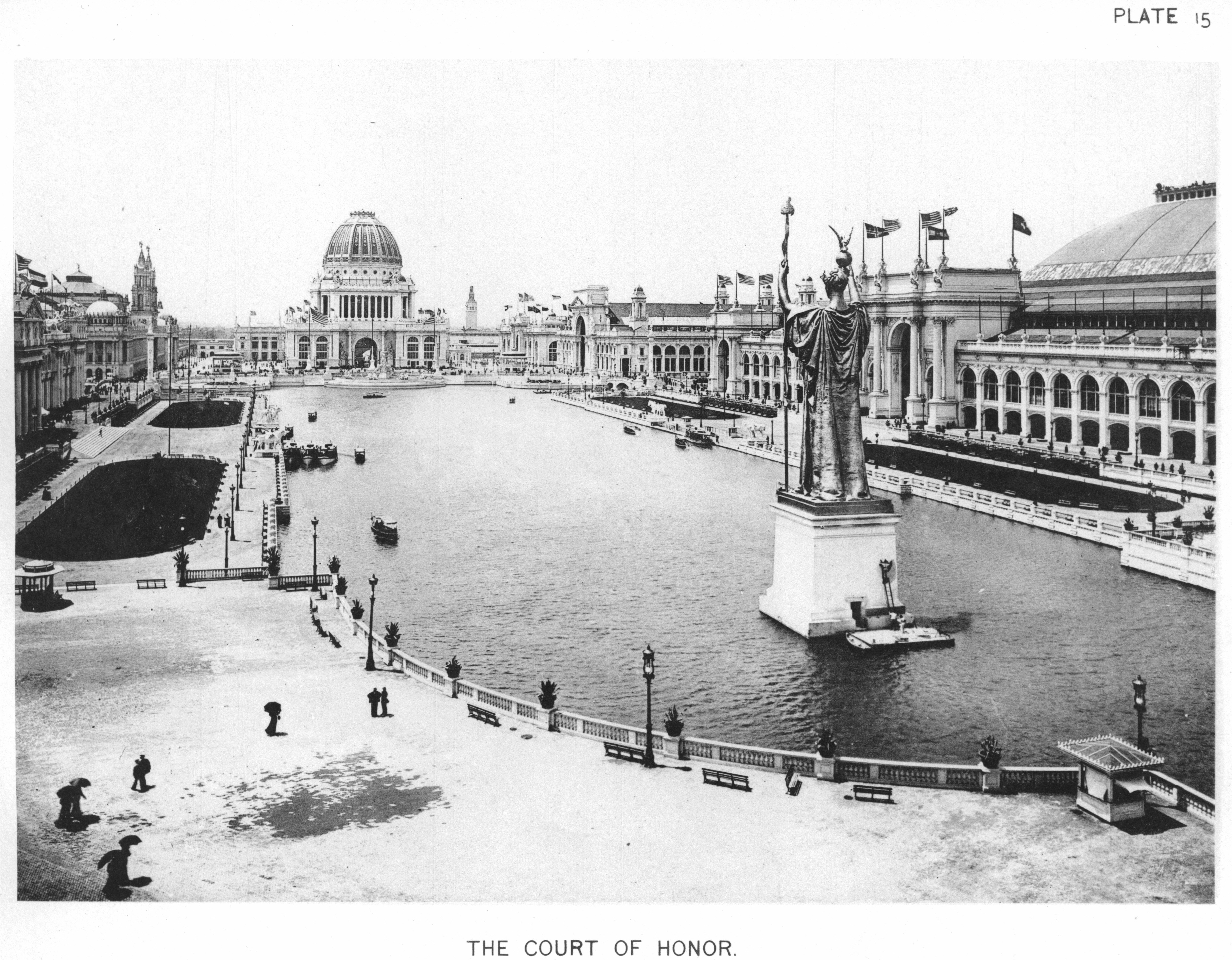 Official Views Of The World's Columbian Exposition: The Court Of Honor